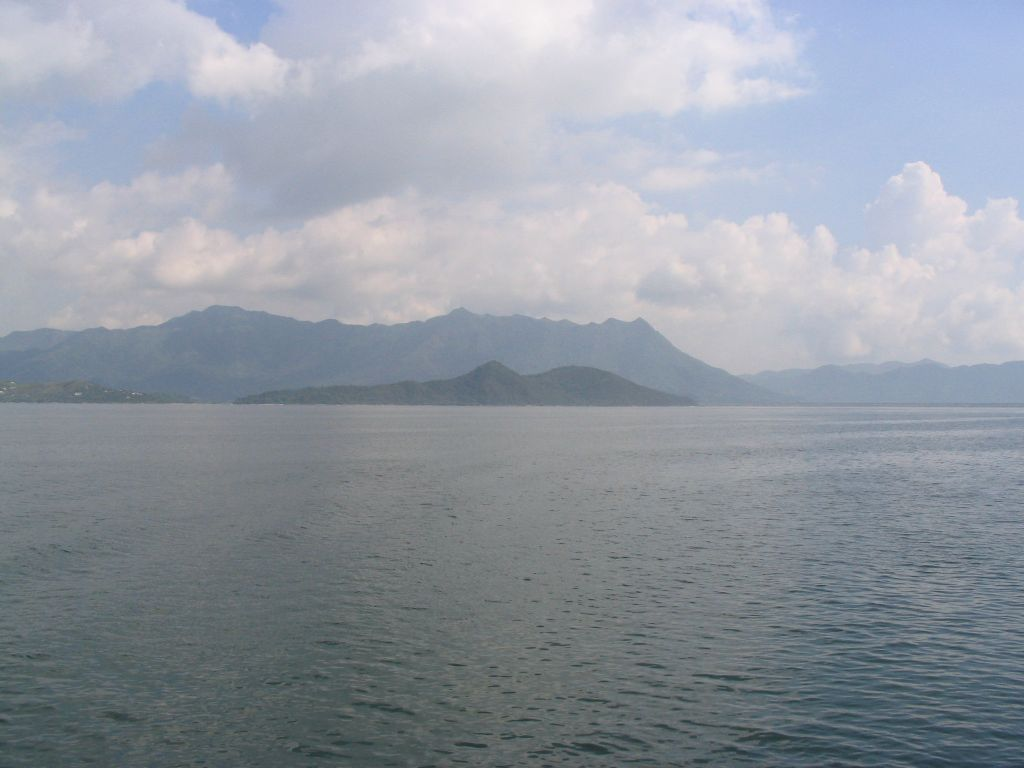 吐露港及八仙嶺 Tolo Harbour & Pat Sin Leng (Mountains)